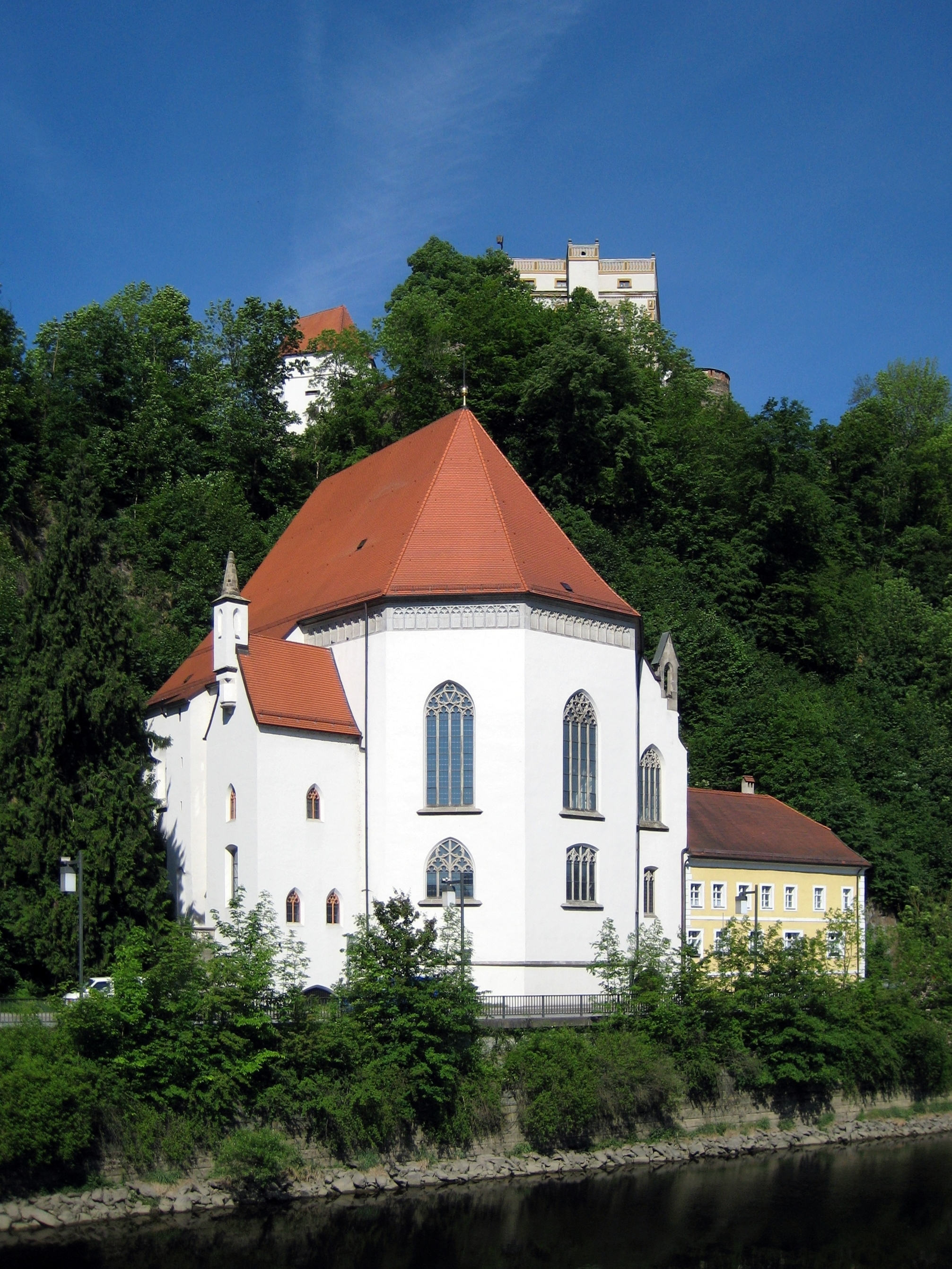 Passau, pilgrimage church St. Salvator, in the background Veste Oberhaus This is a photograph of an architectural monument.